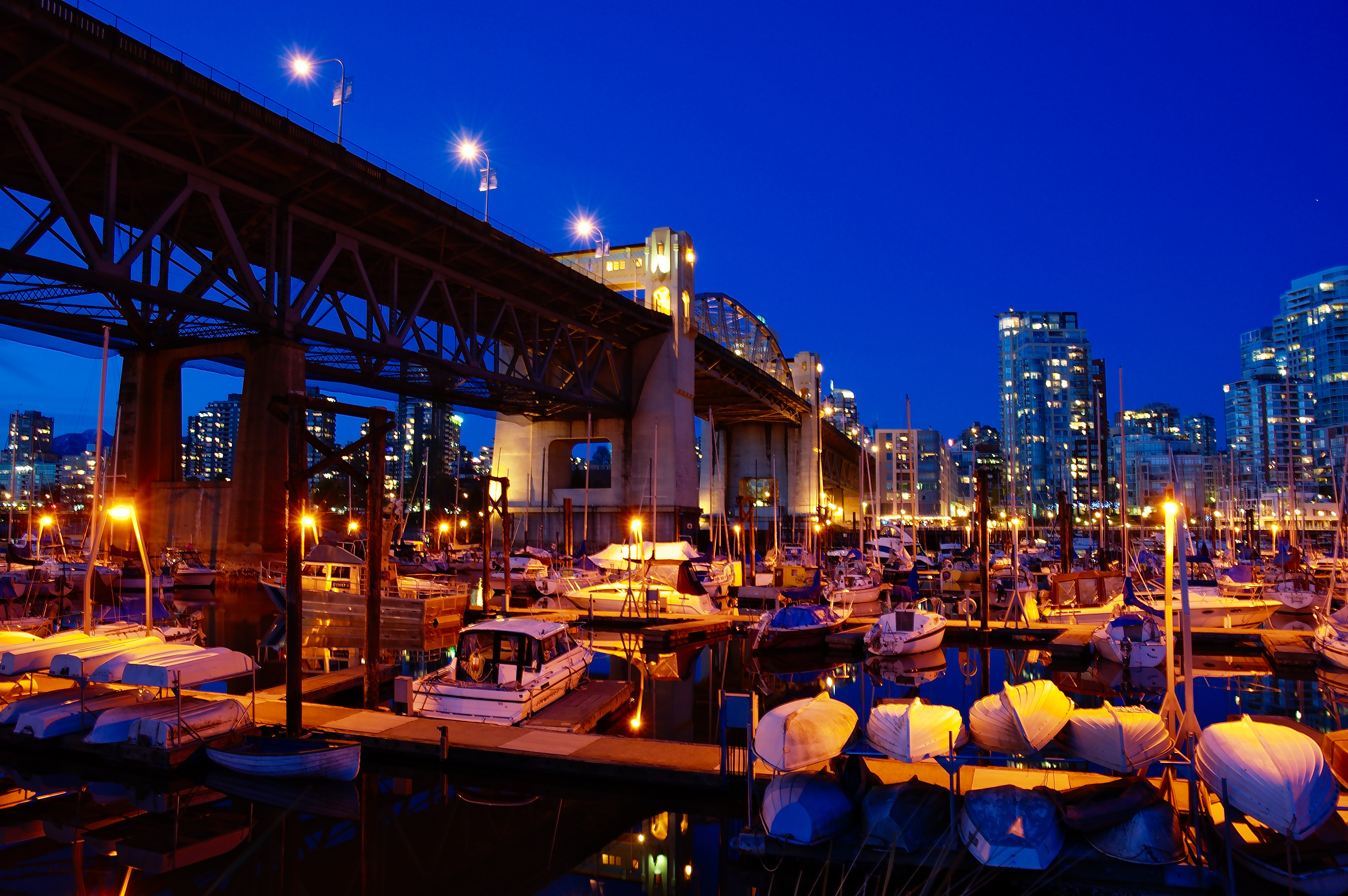 The Burrard Bridge and a False Creek marina located in Vancouver British Columbia.